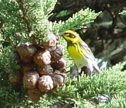 A Townsend's Warbler looking for bugs on a cypress in the Main Post of the Presidio of San Francisco.